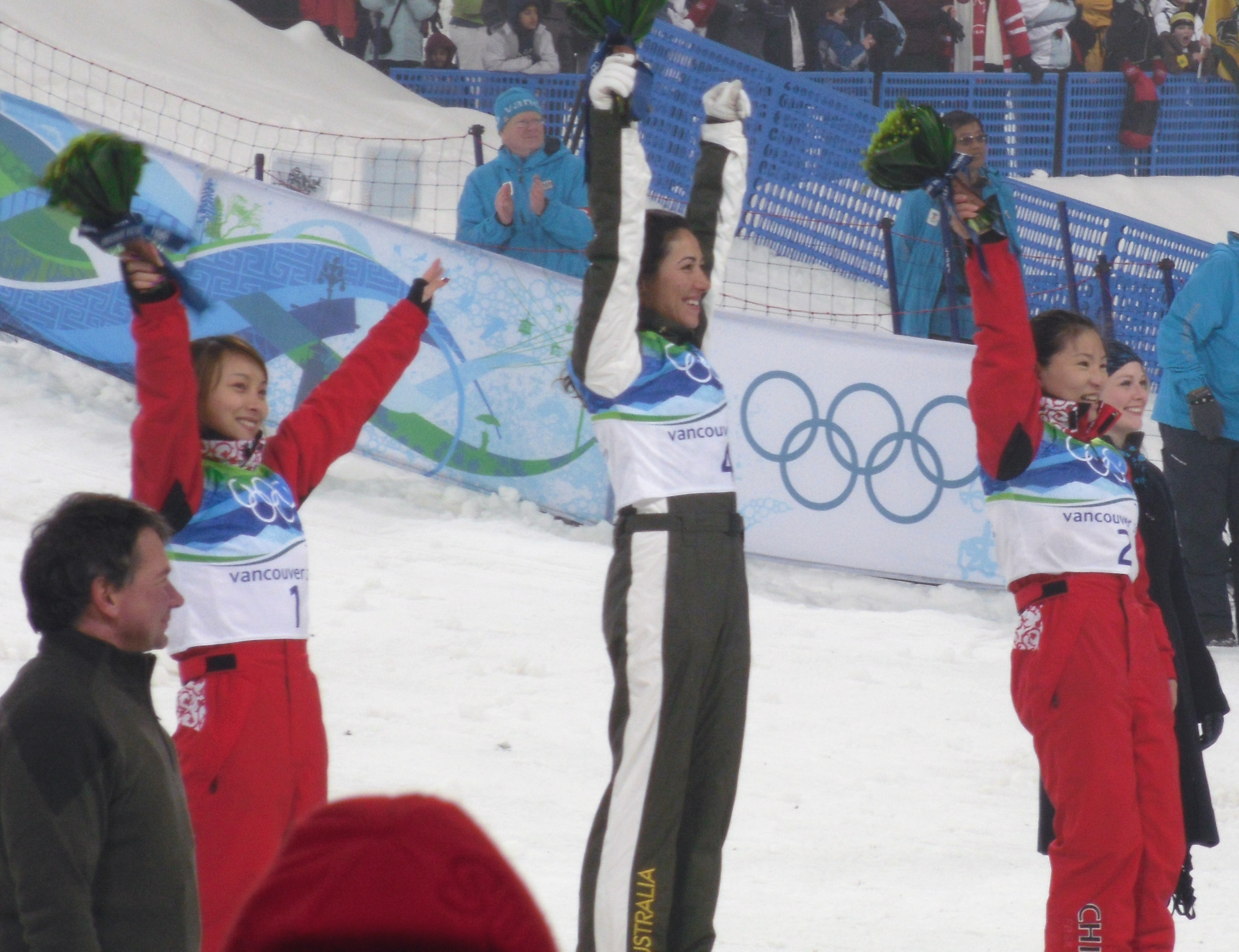 The flower ceremony for the Women's aerialists at the 2010 Winter Olympics. From left: Li Nina (silver), Lydia Lassila (gold) and Guo Xinxin (bronze).